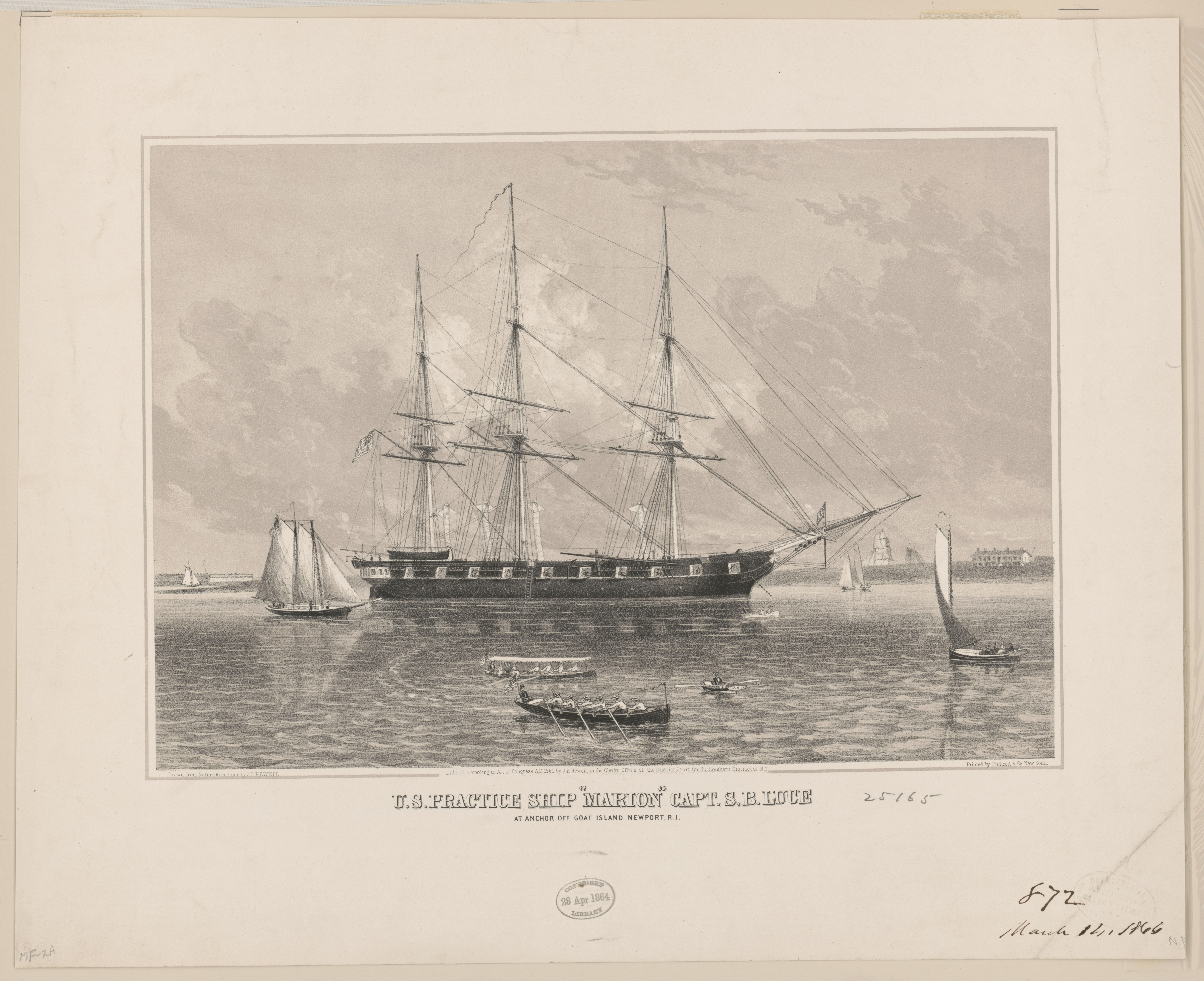 Title: U.S. practice ship Marion Capt. S.B. Luce at anchor off Goat Island Newport, R.I Physical description: 1 print. Notes: This record contains unverified data from PGA shelflist card.; Associated name on shelflist card: Endicott & Company; Copyright deposit: [inscribed] March 12, 1866. No.872.; [stamped] 28 Apr. 1864.; [in pencil] no. 25165